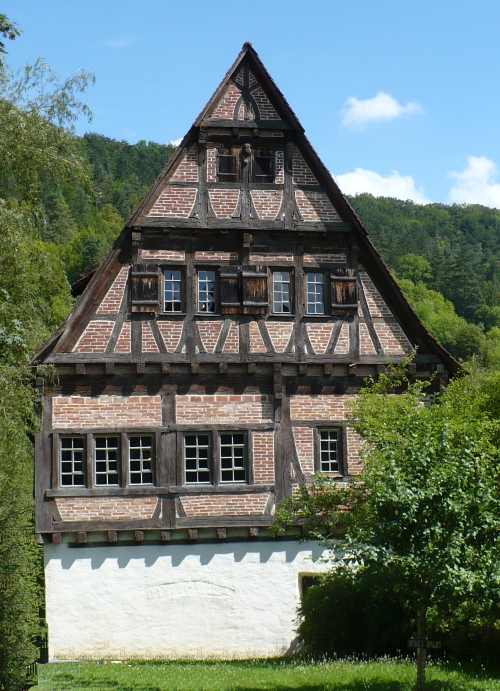 Blaubeuren - Old bath-house